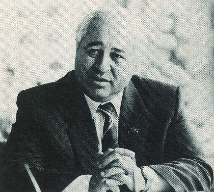 Inomjon Usmonxo‘jayev as depicted in Soviet Life, October 1984